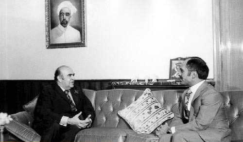 Amir Abbas Hoveida meets with King Hussein (Jordanian king) at tehran, King Abdallah (grandfather of King Hussein) Tablou is seen behind of them.